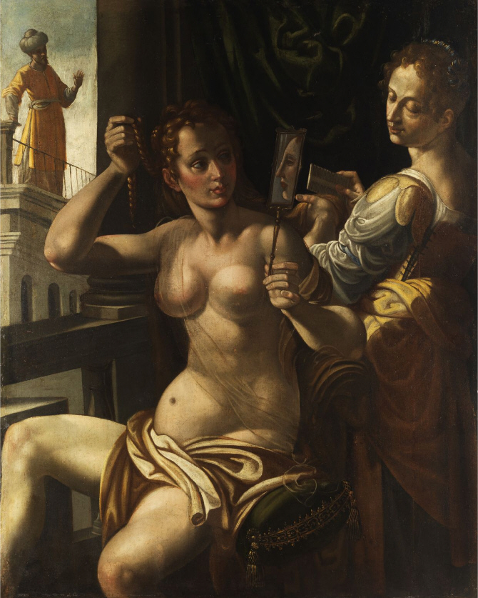 David and Bathsheba, Florence, 17th century